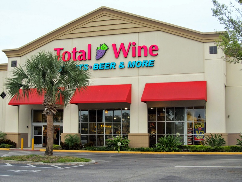 Store in Millenia Plaza